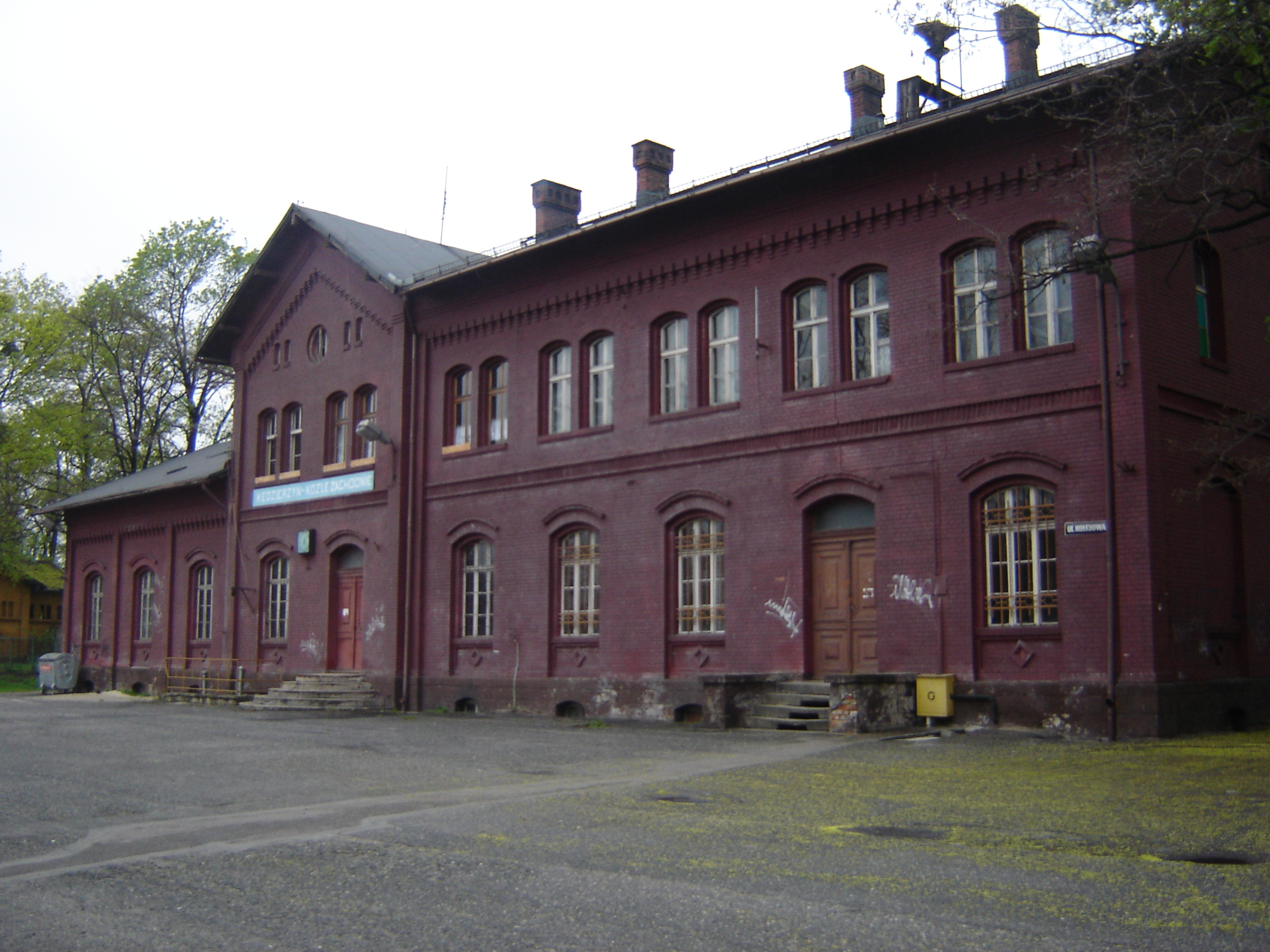 Koźle station (Kędzierzyn Koźle Zachodnie)